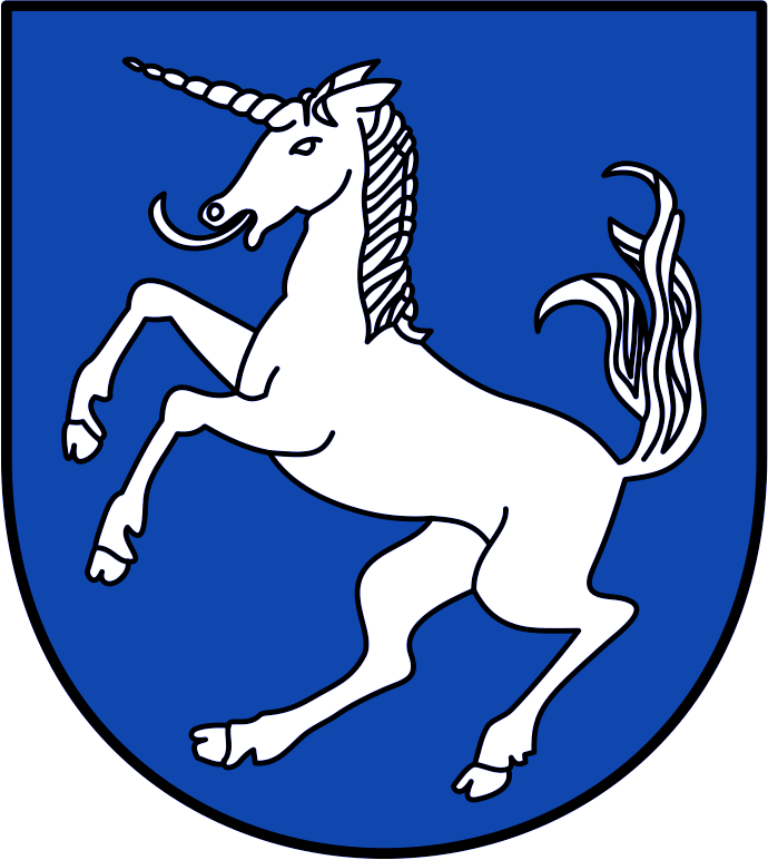 Coat of arms of Ballwil in Canton of Lucerne. Azure, an Unicorn rampant Argent.